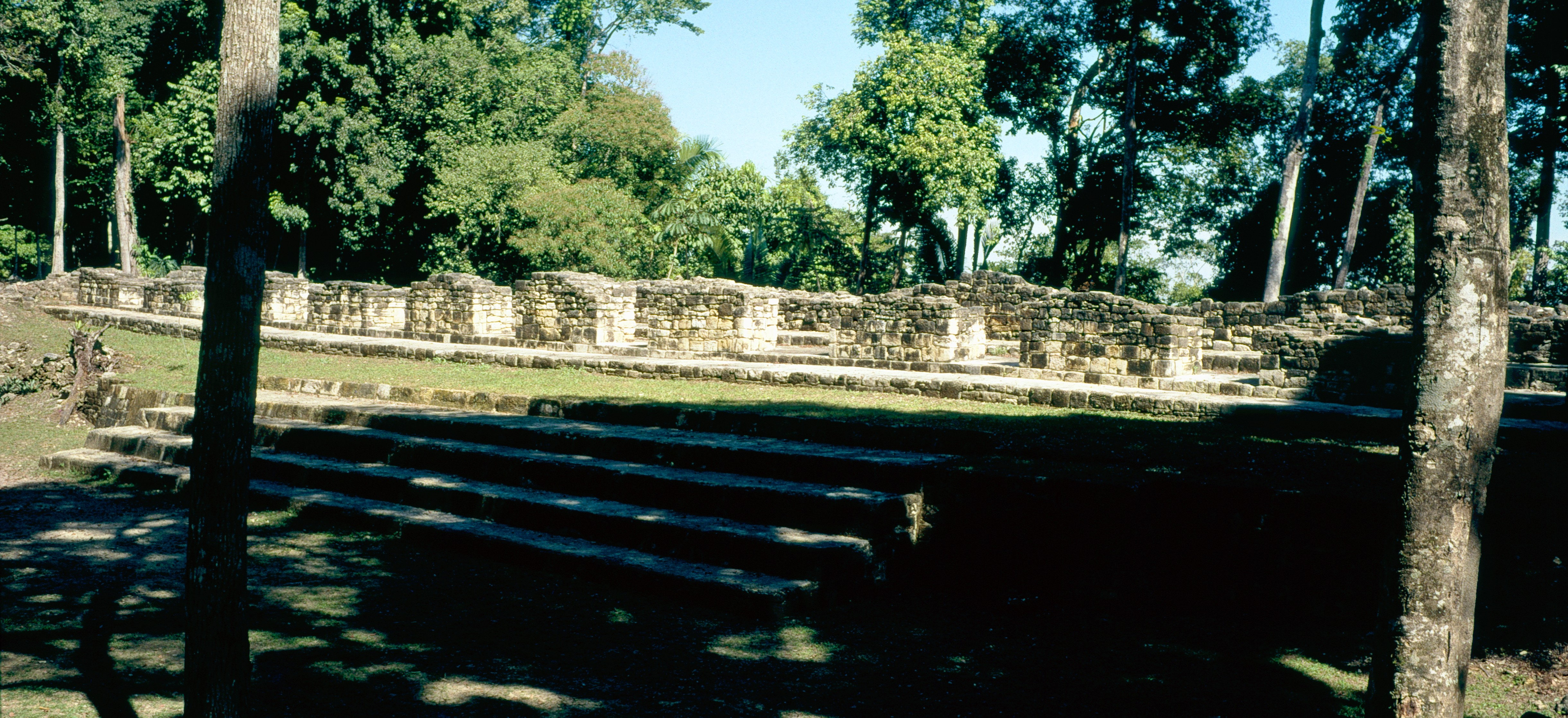 Aguateca, Peten, Guatemala: building M7-26